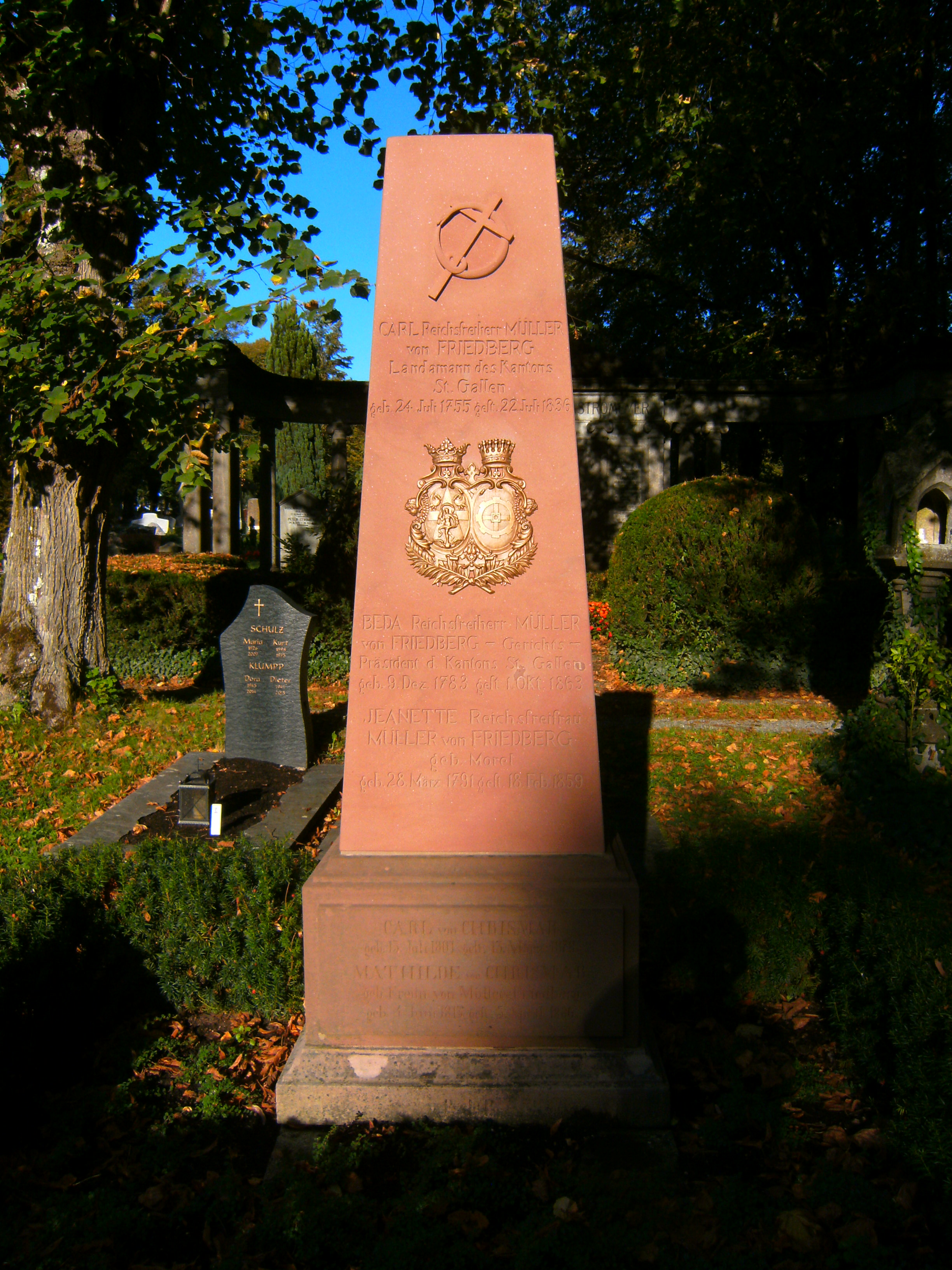 Hauptfriedhof Konstanz, Germany (main cemetery), Riesenbergweg. Gravestone of Carl Reichsfreiherr Müller von Friedberg (1755-1836).